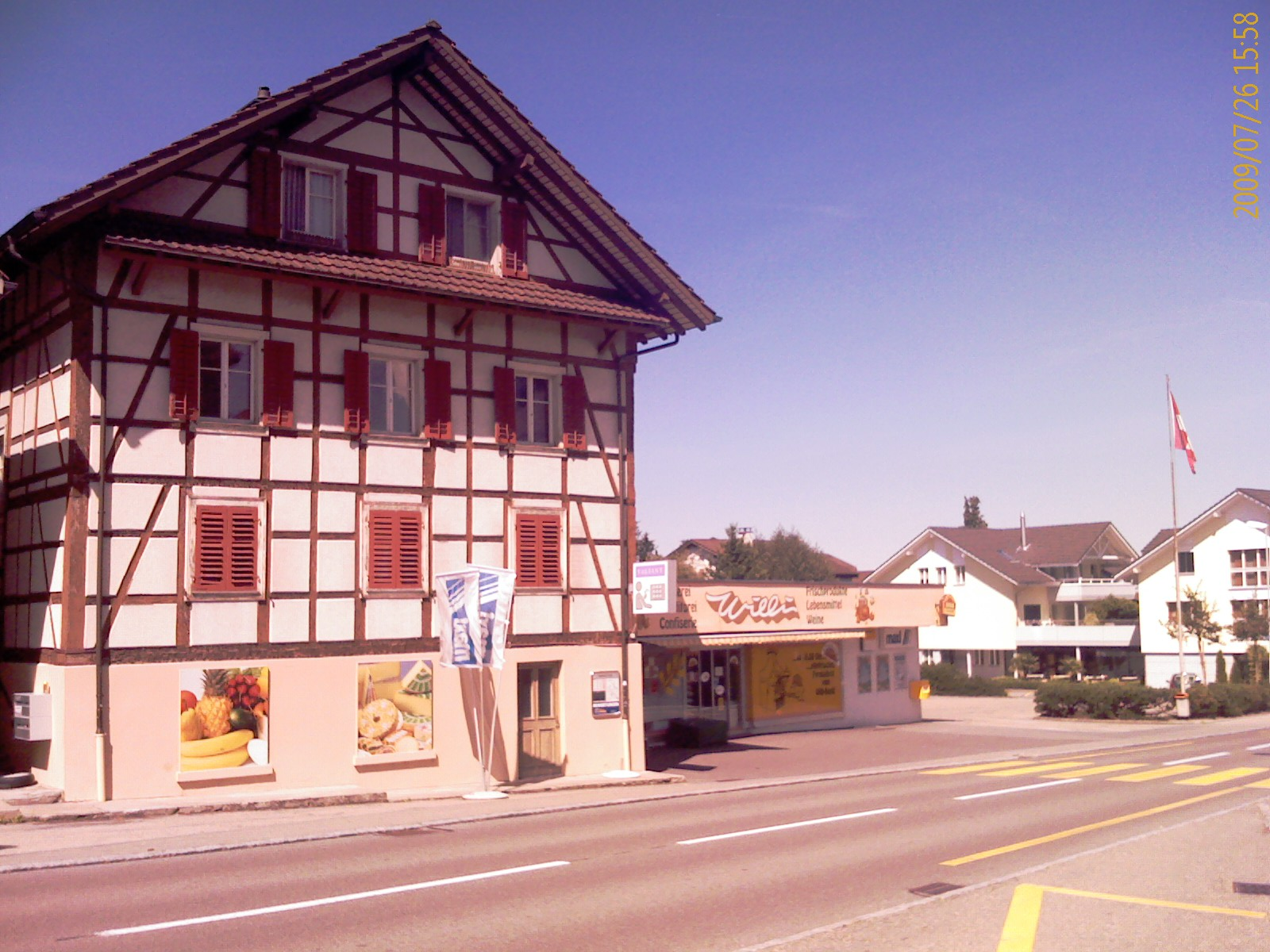 Timber framing house at Hellbühl, municipalitiy of Neuenkirch, canton of Luzern, SwitzerlandEsperanto: Faktrabdomo en Hellbühl, komunumo Neuenkirch, Kantono Lucerno, Svislando